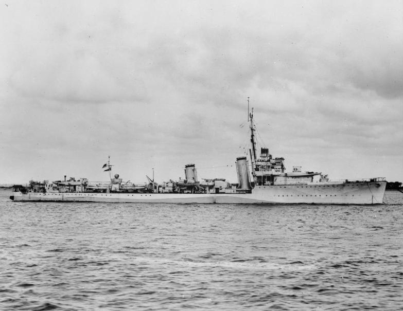 Photograph of British destroyer leader HMS Campbell.